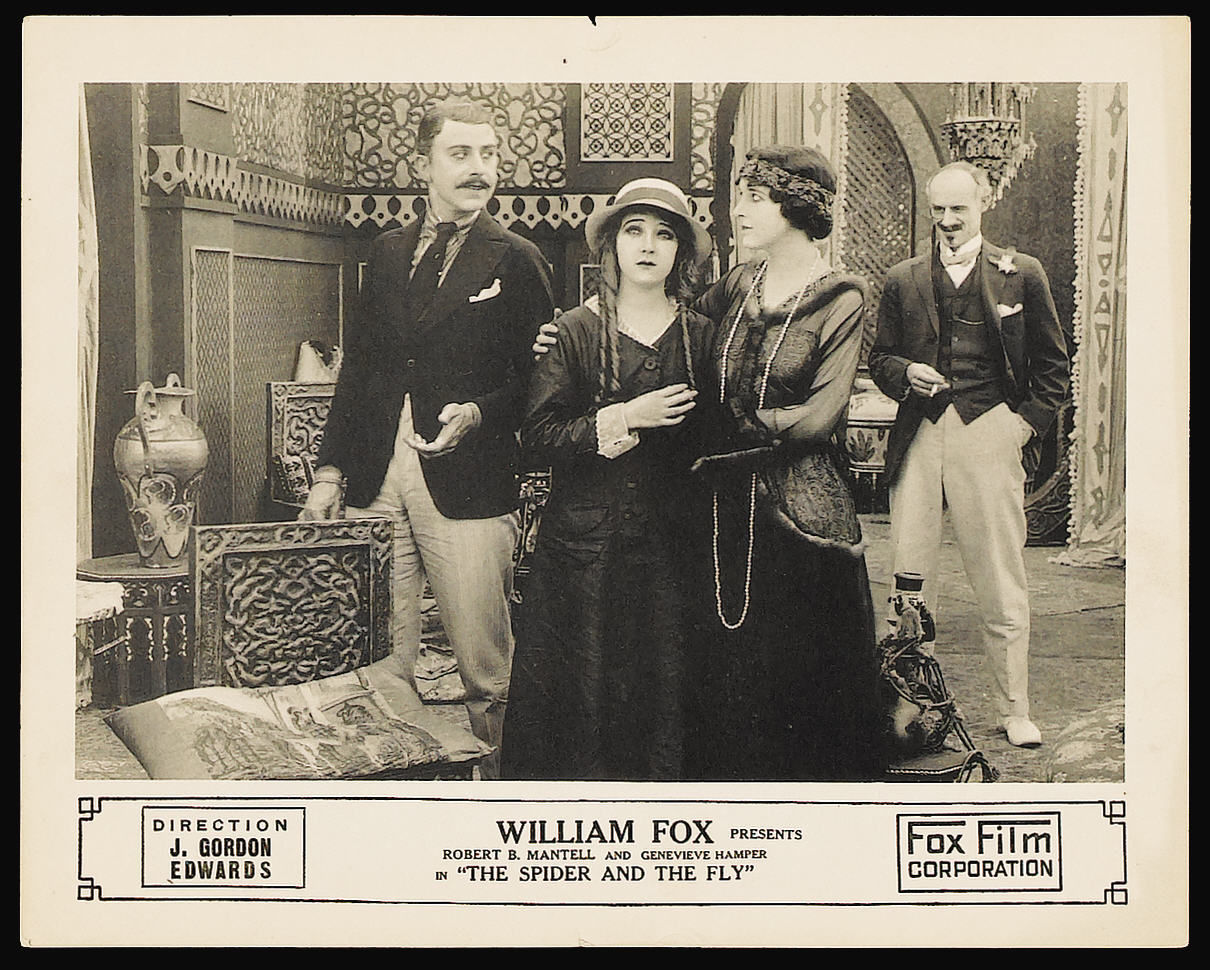 Lobby card for The Spider and the Fly (1916 film) featuring Robert Bruce Mantell